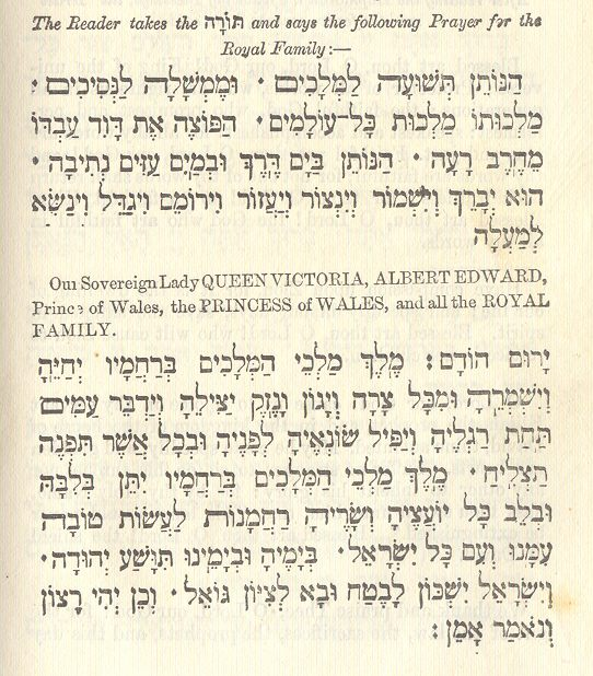 A Jewish "Prayer for the Royal family", this one mentions Queen Victoria, Prince Albert Edward, The princess of Wales and all the Royal family.